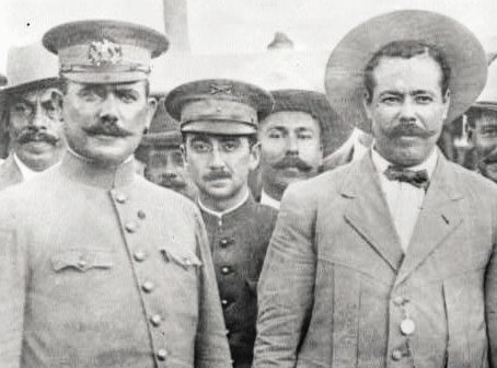 From left to right: 2. General Álvaro Obregón, 3. Emilio Madero, 4. Luis Aguirre Benavides. 5. General Francisco Villa Arámbula on 27 August 1914.